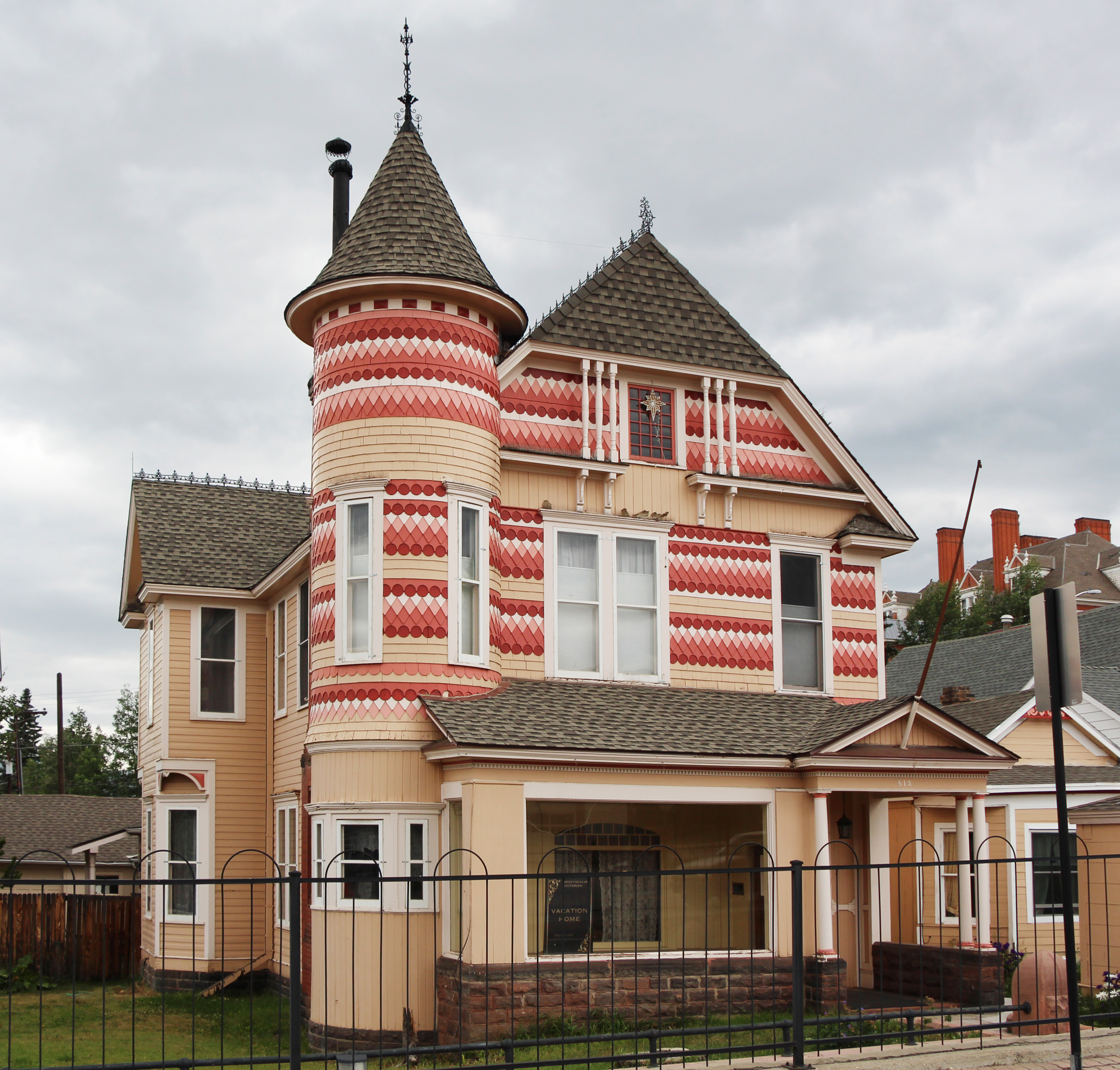 Englebach House, 815 Harrison Street, Leadville, CO